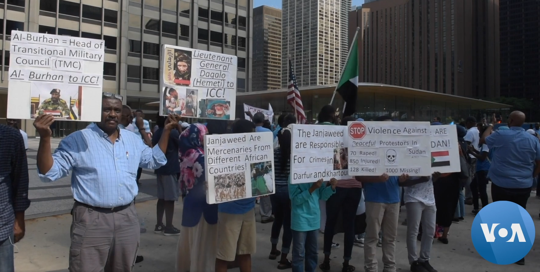 Sudanese citizens gathered in dozens of cities around the world over the weekend to show solidarity with protesters in their home country demanding the country's military junta hand power to a civilian government. For VOA, Jason Patinkin talked to protesters in the the U.S. city of Chicago.